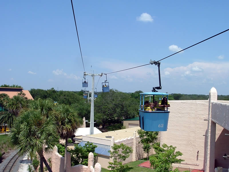 A view from Skyride (above the Timbuktu Theater) at Busch Gardens Africa in Tampa, Florida.